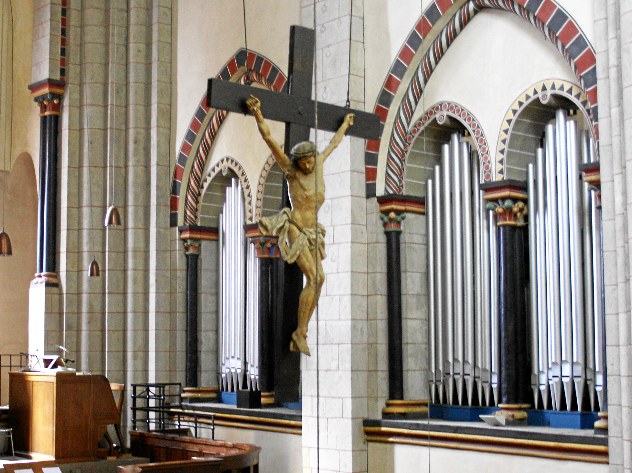 Neuss, Germany. Roman-catholic church Saint Quirinus, pipe organ.